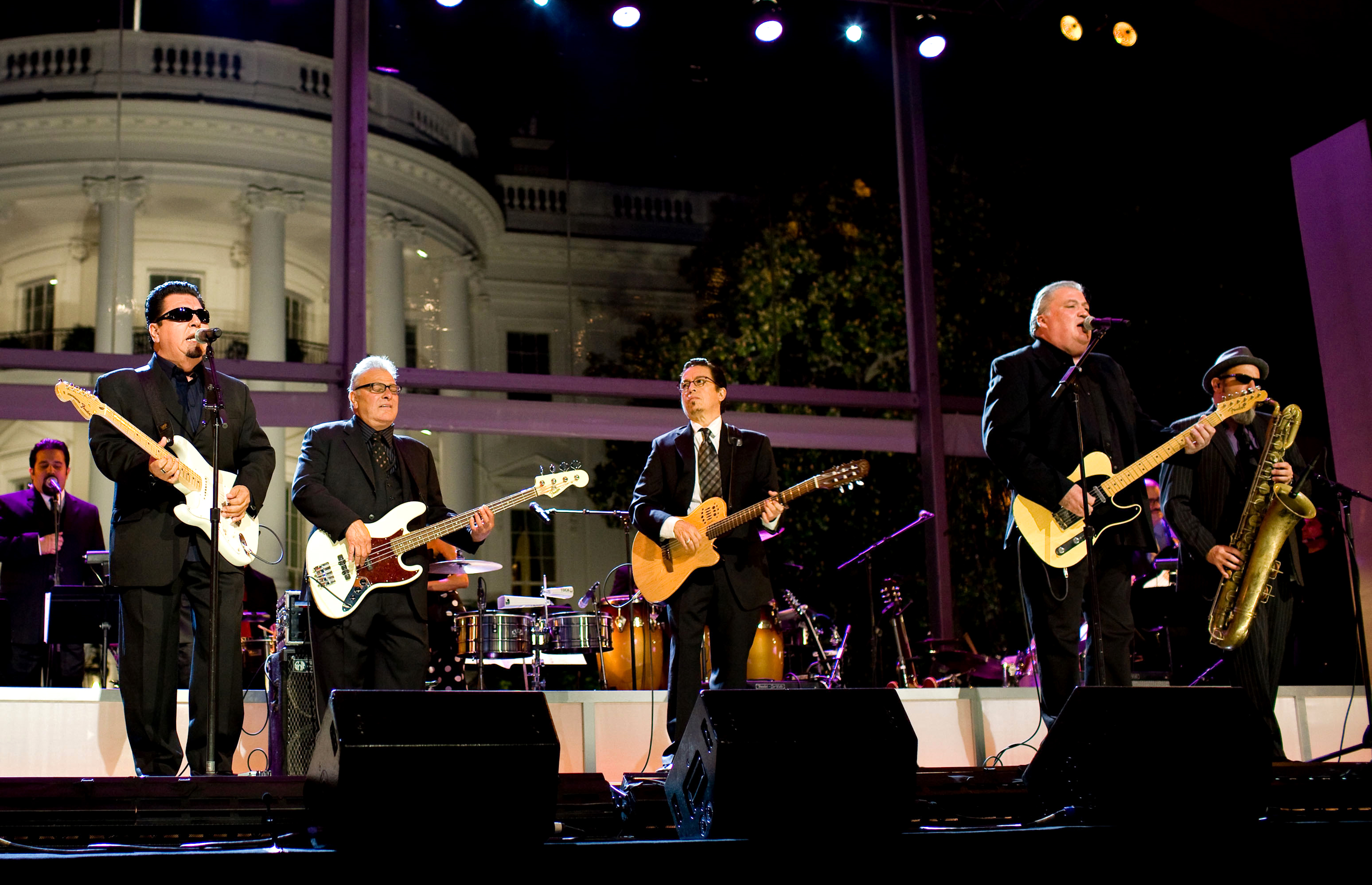 Chicano rock band Los Lobos performs during the "In Performance at the White House: Fiesta Latina" concert, celebrating Hispanic musical heritage, on the South Lawn of the White House, Oct. 13, 2009.